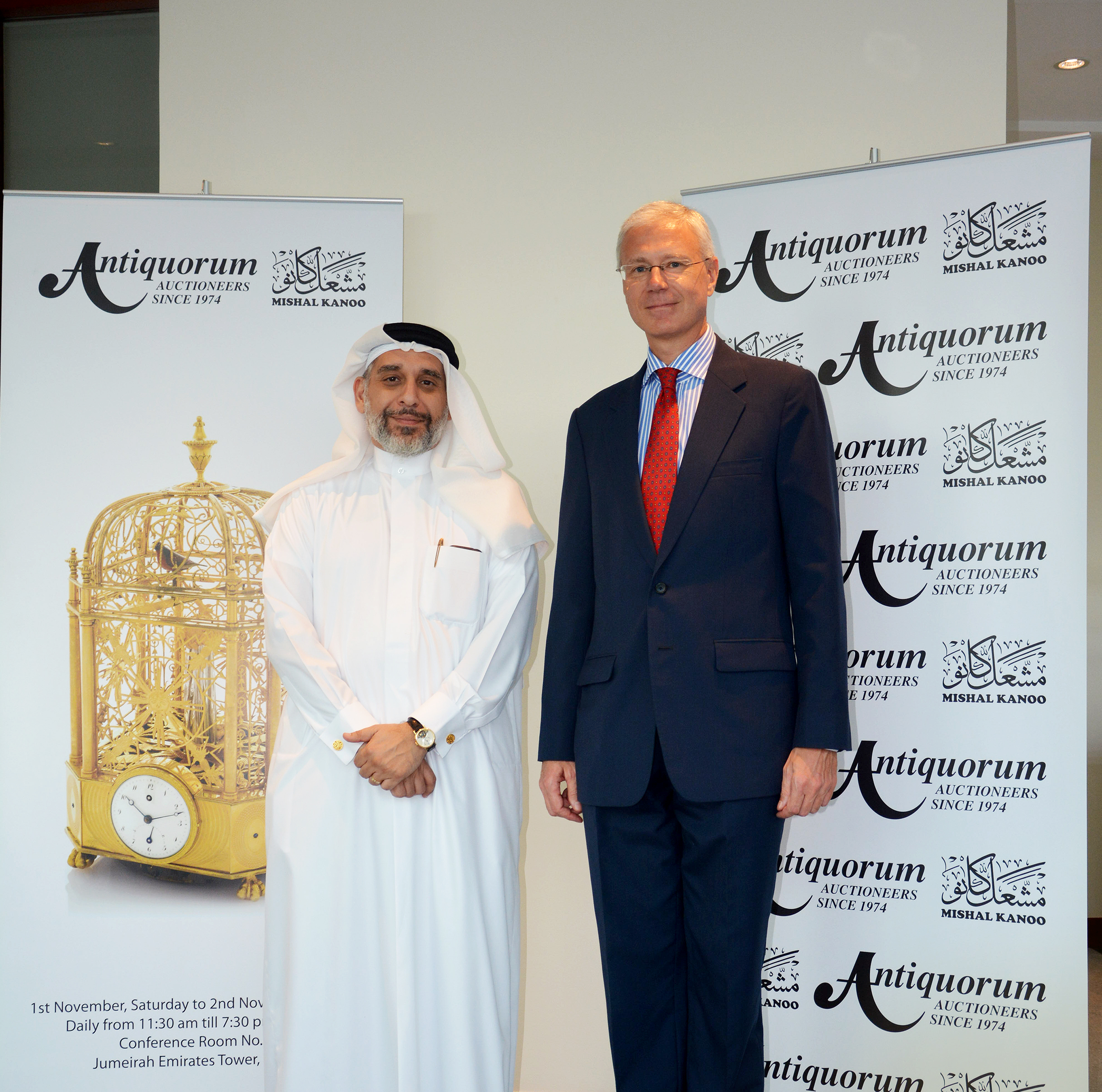 Mr. Mishal Kanoo, Deputy Chairman of The Kanoo Group [left] together with Mr. Peter Elsner-Mackay, Ambassador of Austria to the UAE pose during the Antiquorum watch exhibition held at Jumeirah Emirates Towers